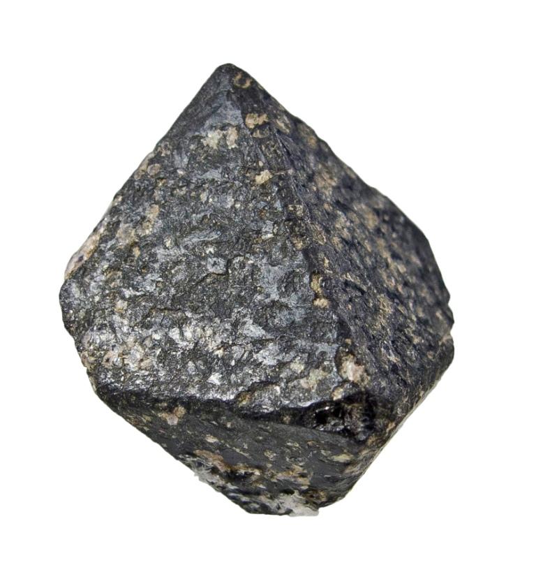 Chromite Locality: Hangha, Kenema District, Eastern Province, Sierra Leone Size: 1.8 cm x 1.7 cm x 1.2 cm This is one of the largest, equant chromite crystals I have seen. It is usually found in tiny crystals or grains. It is an octahedron with some luster and a mottled black color. Pretty amazing size and sharpness make this an important example of the species. Purchased from his old collecting friend Ed Swoboda, in 1998. Ex. Al Ordway Collection.